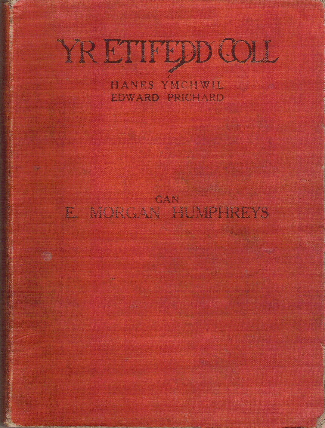 Scan of front cover of the Welsh-language novel Yr Etifedd Coll by Edward Morgan Humphreys (The Educational Publishing Company, Caernarfon, 1924).